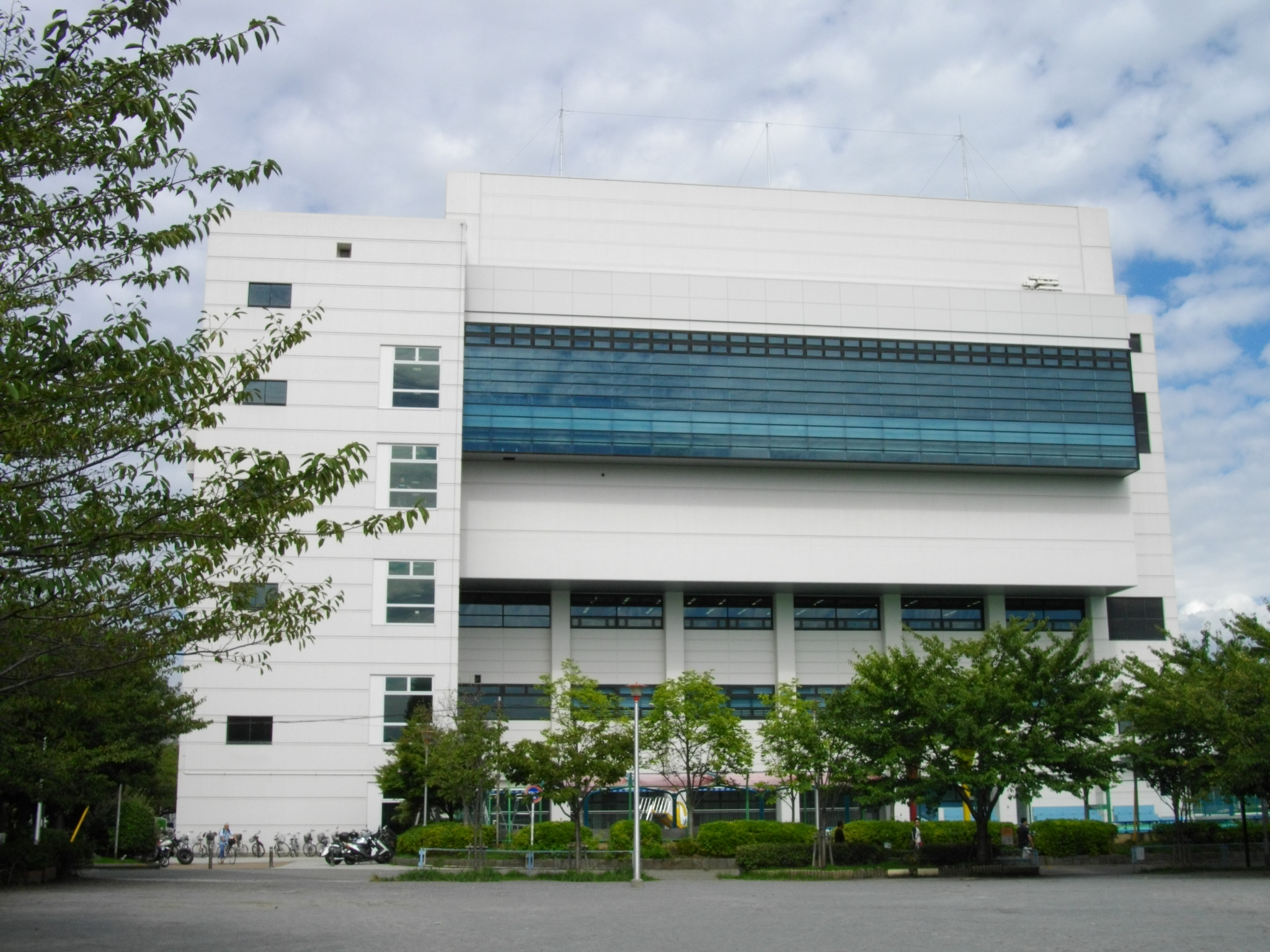 Taito Riverside Sports Center